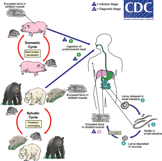 Trichinellosis [Trichinella spiralis] [T. pseudospiralis] [T. nativa] [T. nelsoni] [T. britovi] Life cycle of Trichinella spp. Trichinellosis is acquired by ingesting meat containing cysts (encysted larvae) of Trichinella. After exposure to gastric acid and pepsin, the larvae are released from the cysts and invade the small bowel mucosa where they develop into adult worms (female 2.2 mm in length, males 1.2 mm; life span in the small bowel: 4 weeks). After 1 week, the females release larvae that migrate to the striated muscles where they encyst. Trichinella pseudospiralis, however, does not encyst. Encystment is completed in 4 to 5 weeks and the encysted larvae may remain viable for several years. Ingestion of the encysted larvae perpetuates the cycle. Rats and rodents are primarily responsible for maintaining the endemicity of this infection. Carnivorous/omnivorous animals, such as pigs or bears, feed on infected rodents or meat from other animals. Different animal hosts are implicated in the life cycle of the different species of Trichinella. Humans are accidentally infected when eating improperly processed meat of these carnivorous animals (or eating food contaminated with such meat).